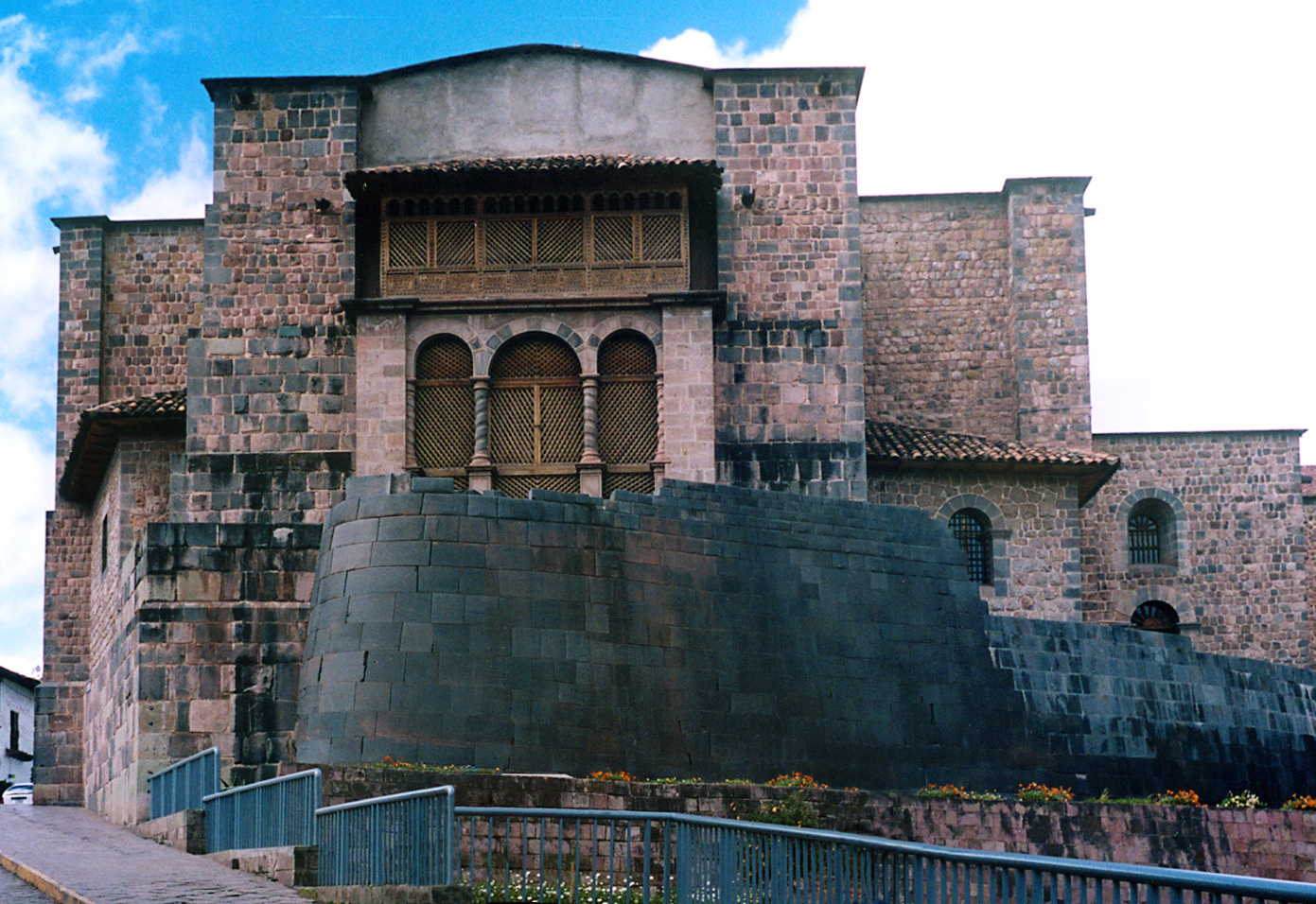 Resting part of Inti-Huasi, at Coricancha/Santo Domingo, Cusco, Peru